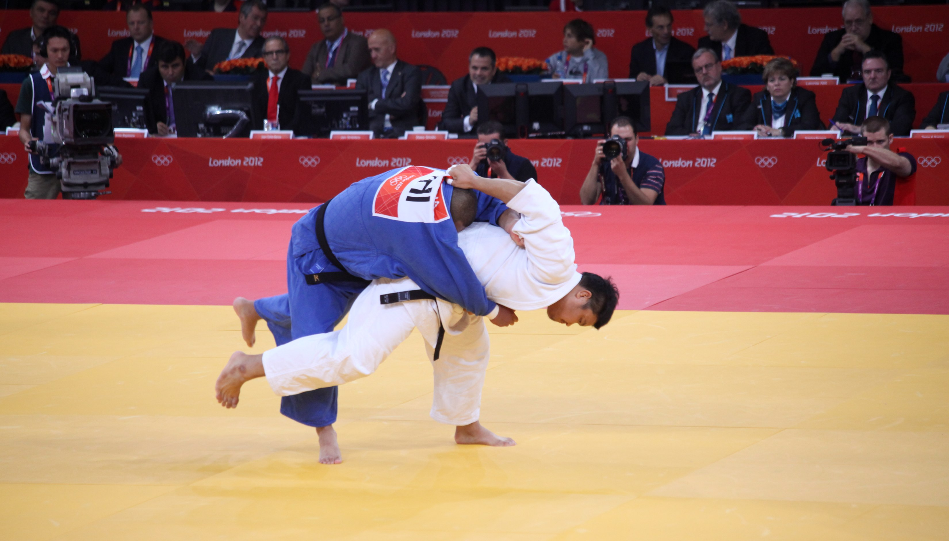 Olympic Judo London 2012